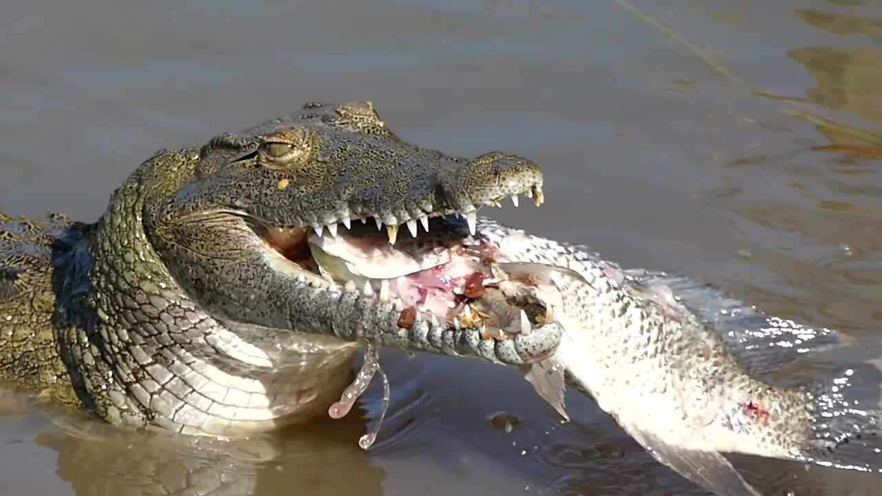 Sabie Bridge, H10 Road East of Lower Sabie, Kruger NP, SOUTH AFRICA